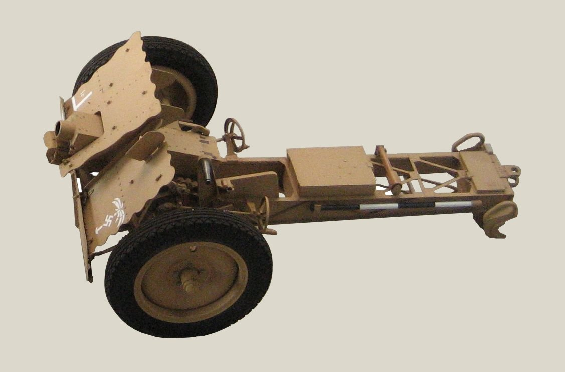 7,5 cm leichtes Infanteriegeschütz 18, National World War II Museum, New Orleans